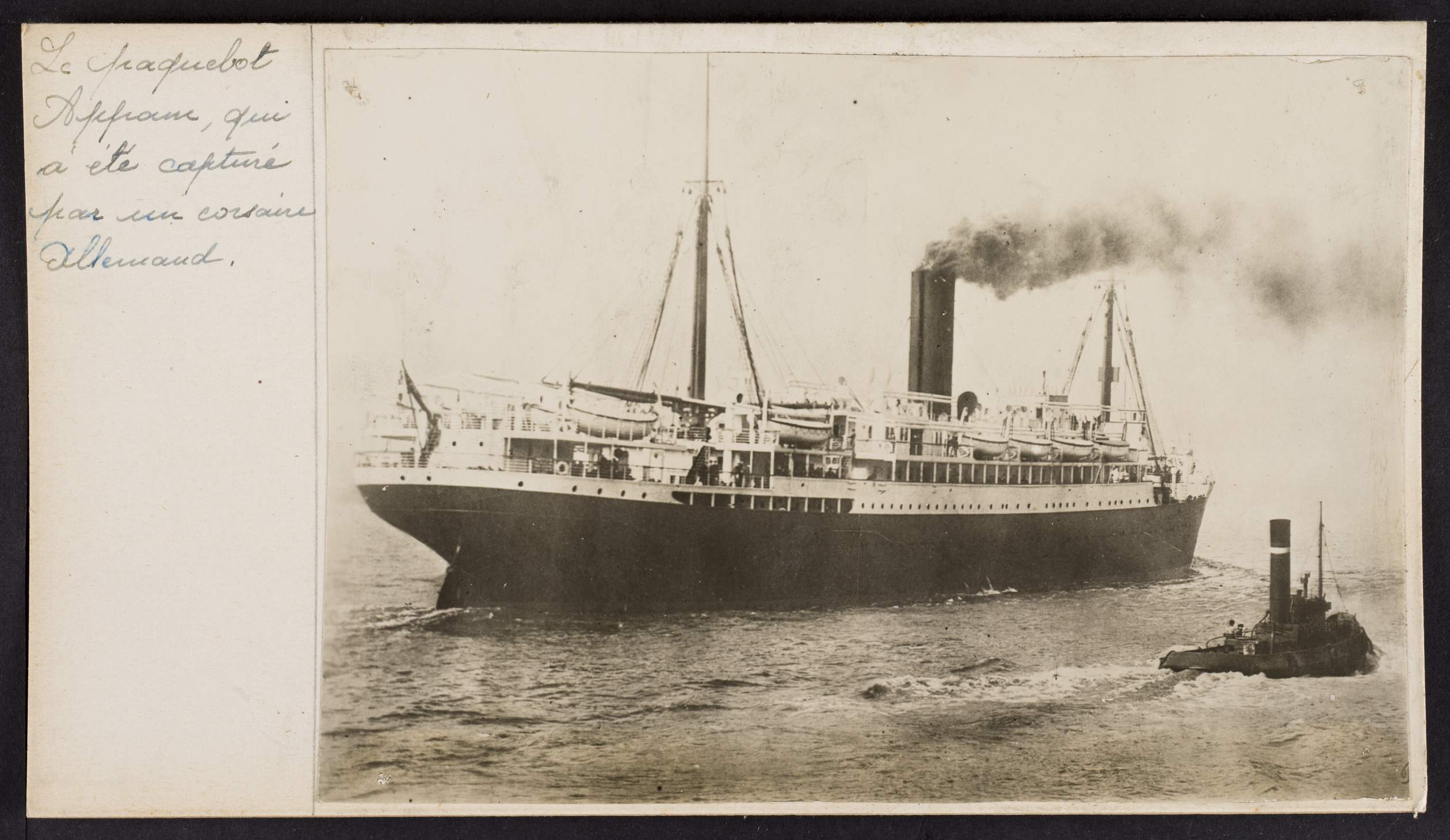 7,781 GRT passenger ship Appam, built in 1912 by Harland and Wolff at Belfast for the British and African Steam Navigation Company. She was scrapped in 1936.